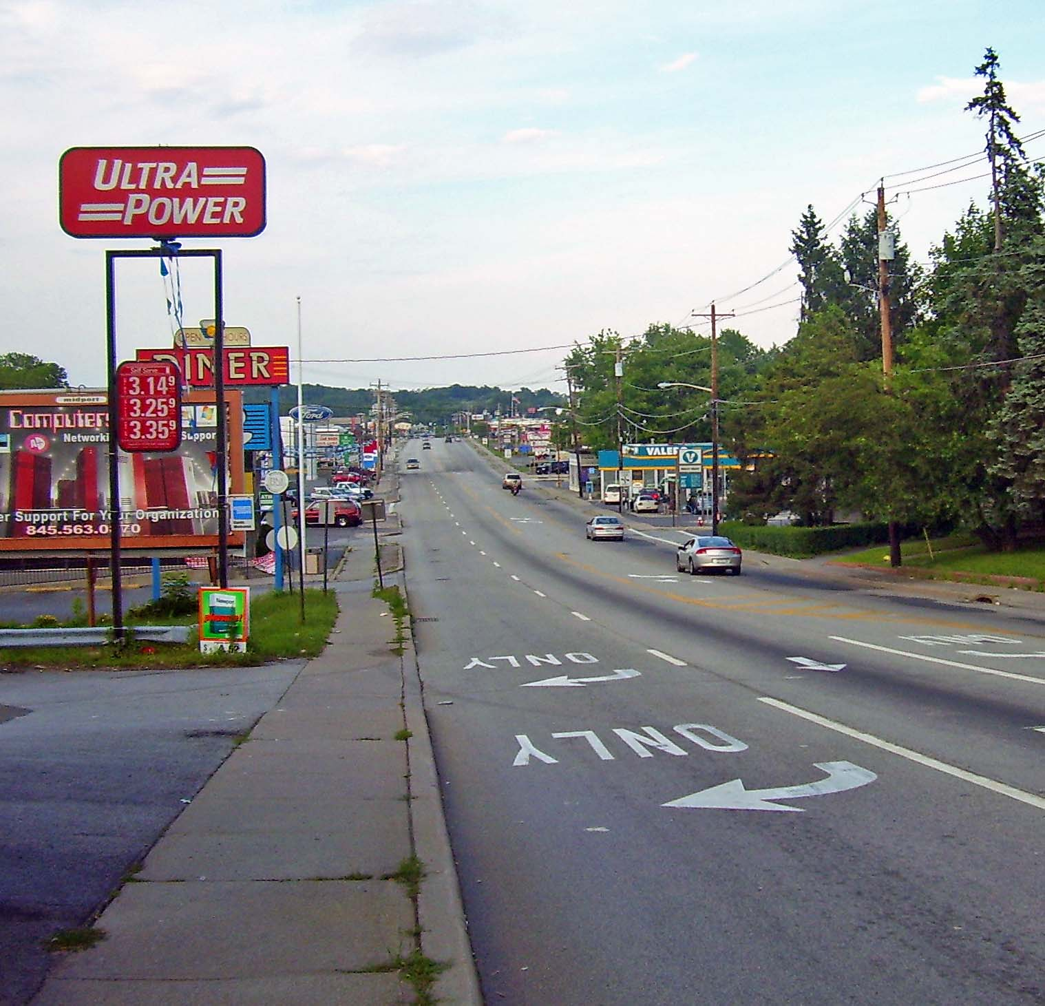 Looking east (actually, more like north) along NY 211 from the intersection with Wisner Avenue in Middletown to where the road expands into a commercial strip in the Town of Wallkill.